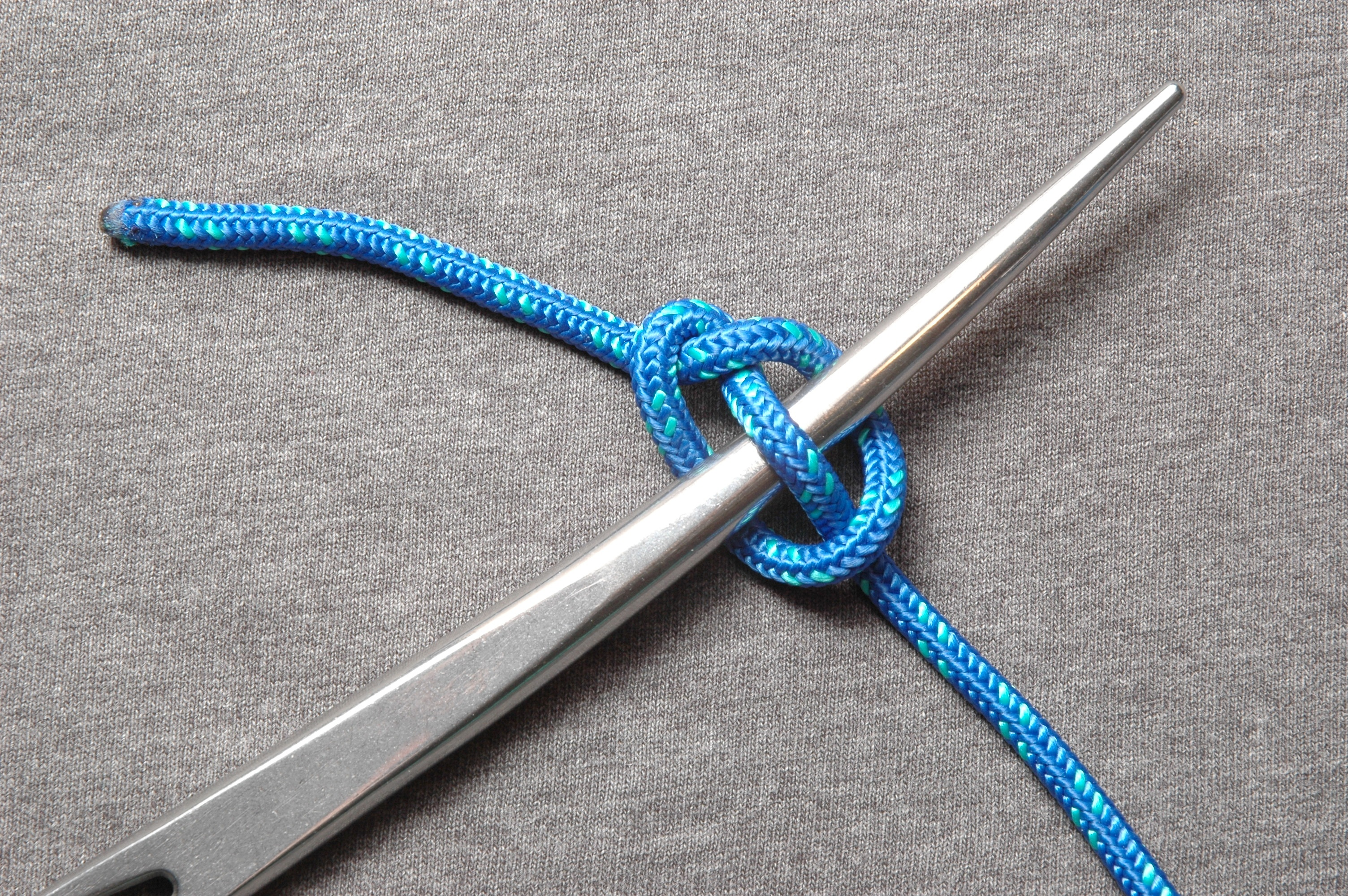 Step 4 in tying a Marlinespike hitch; before loading the hitch, remove as much slack as possible by tugging on both the working and standing parts.